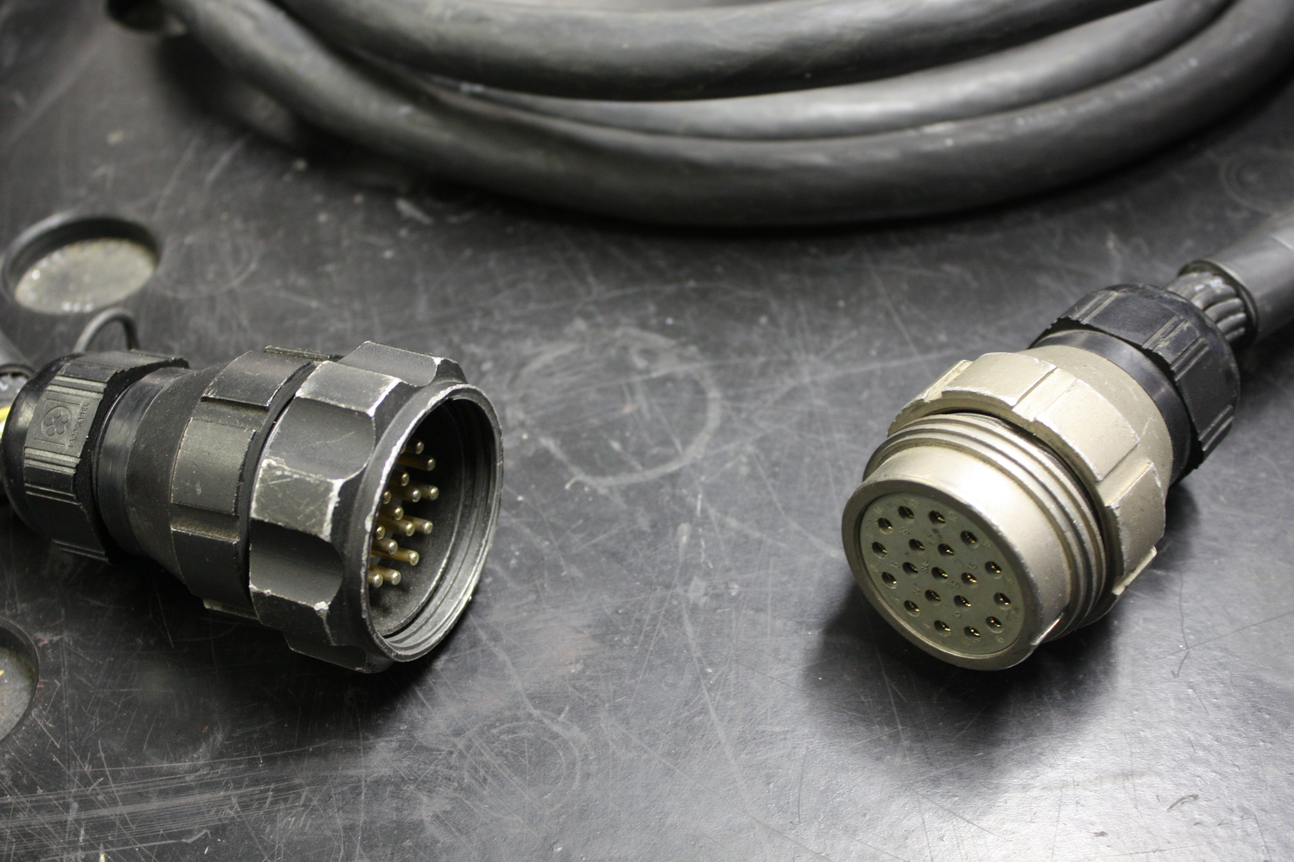 19 Pin Socapex connector. Both male and female part are shown.